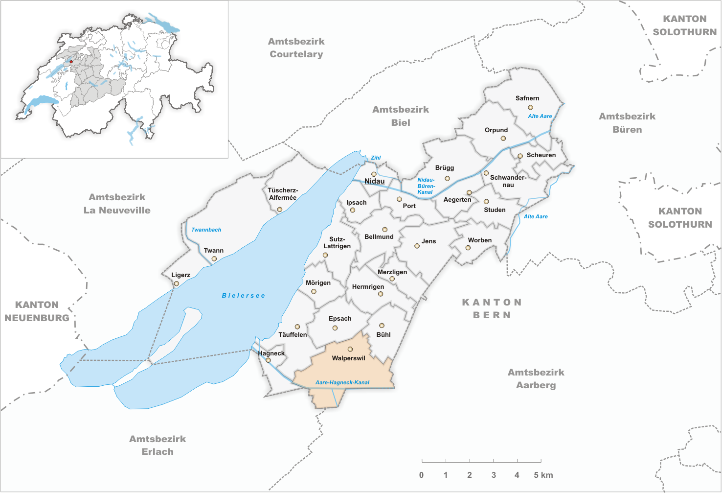 Municipality Walperswil